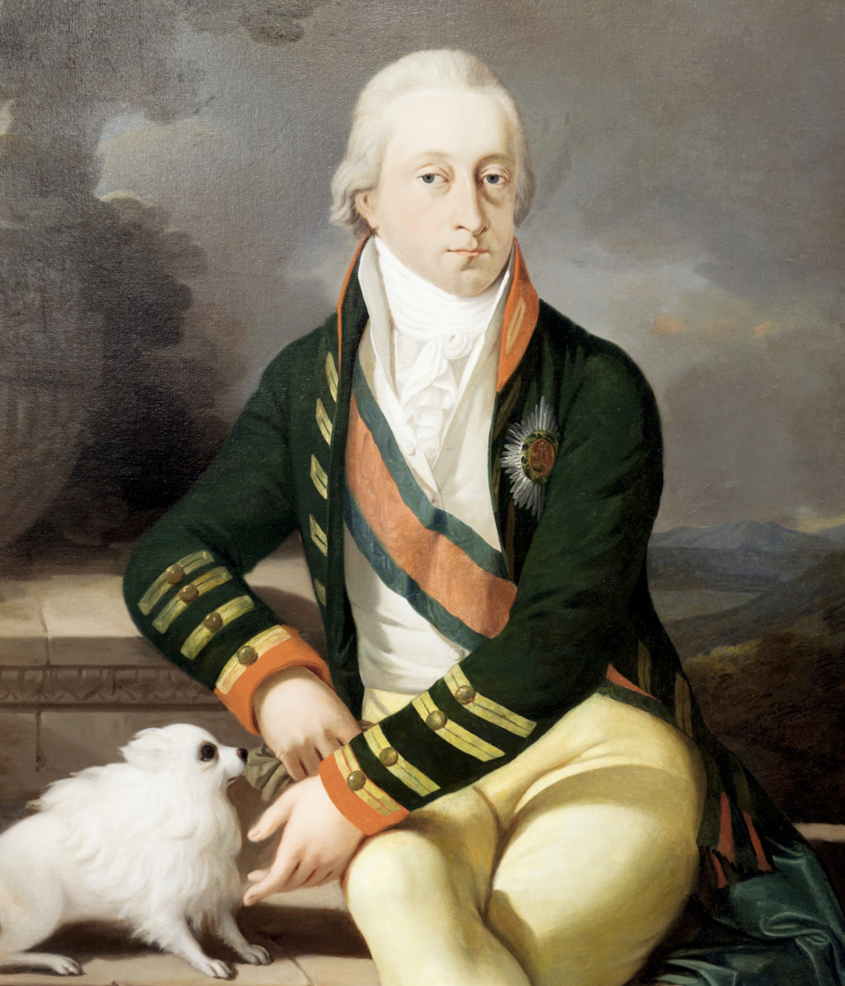 Prince Nikolaus II. Esterházy (1765-1833) with Caro. Esterházy Private Trust, Schloss Esterházy (Esterházy Palace), Eisenstadt